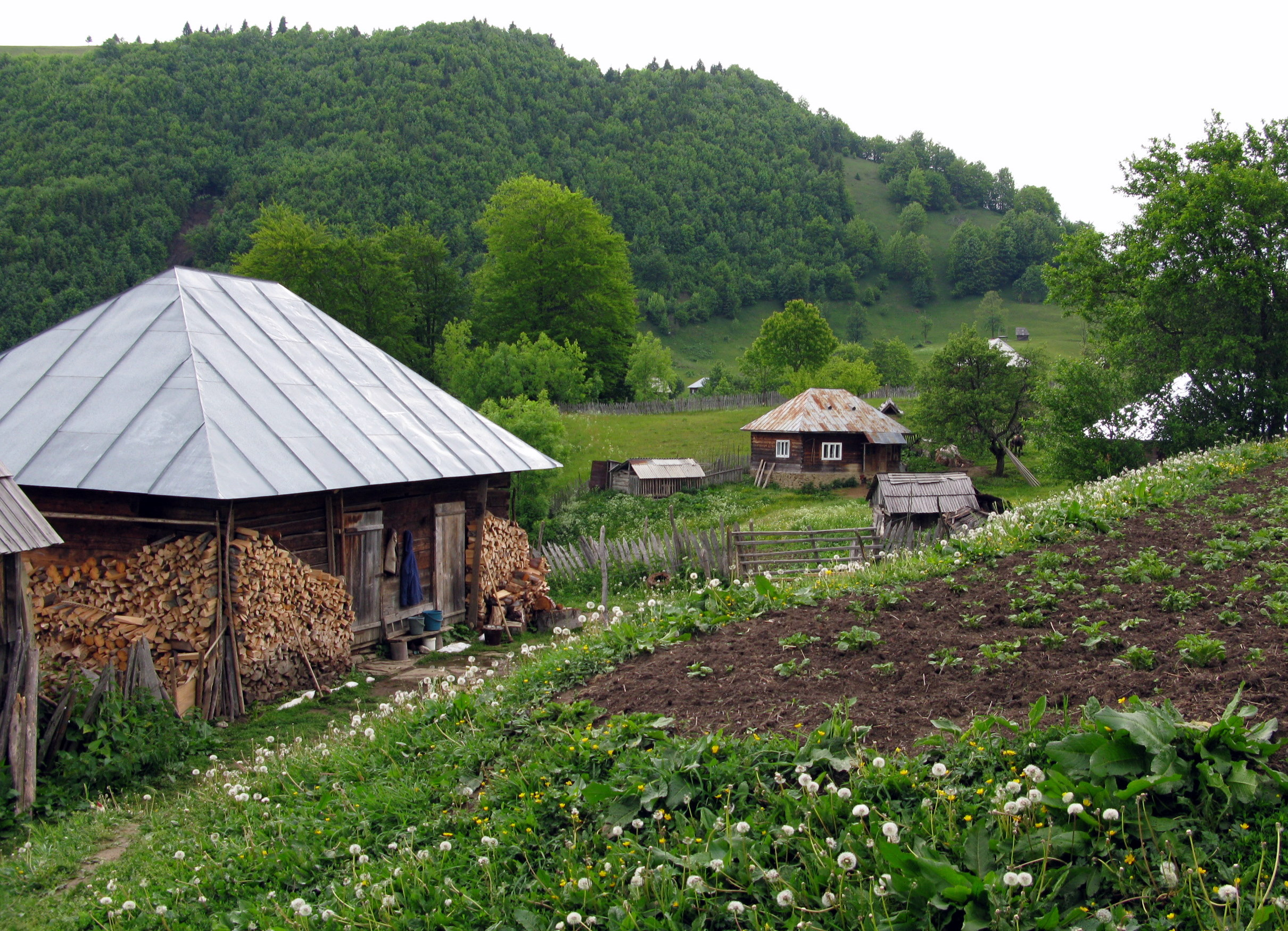 Hillfort Obcina near Poienile de Sub Munte or in the rear Valea Vinului Maramureş Mountains (Inner Eastern Carpathians) in north of Rumania / EU. Many of the houses are covered with sheet metal roofs. View towards the northwest. In early June blooming dandelions. The potato field is freshly planted. In the background, the forests of the Carpathians.